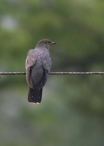 The species Eurasian Cuckoo had been photographed from Rongli in East Sikkim, India on 10.04.2016.